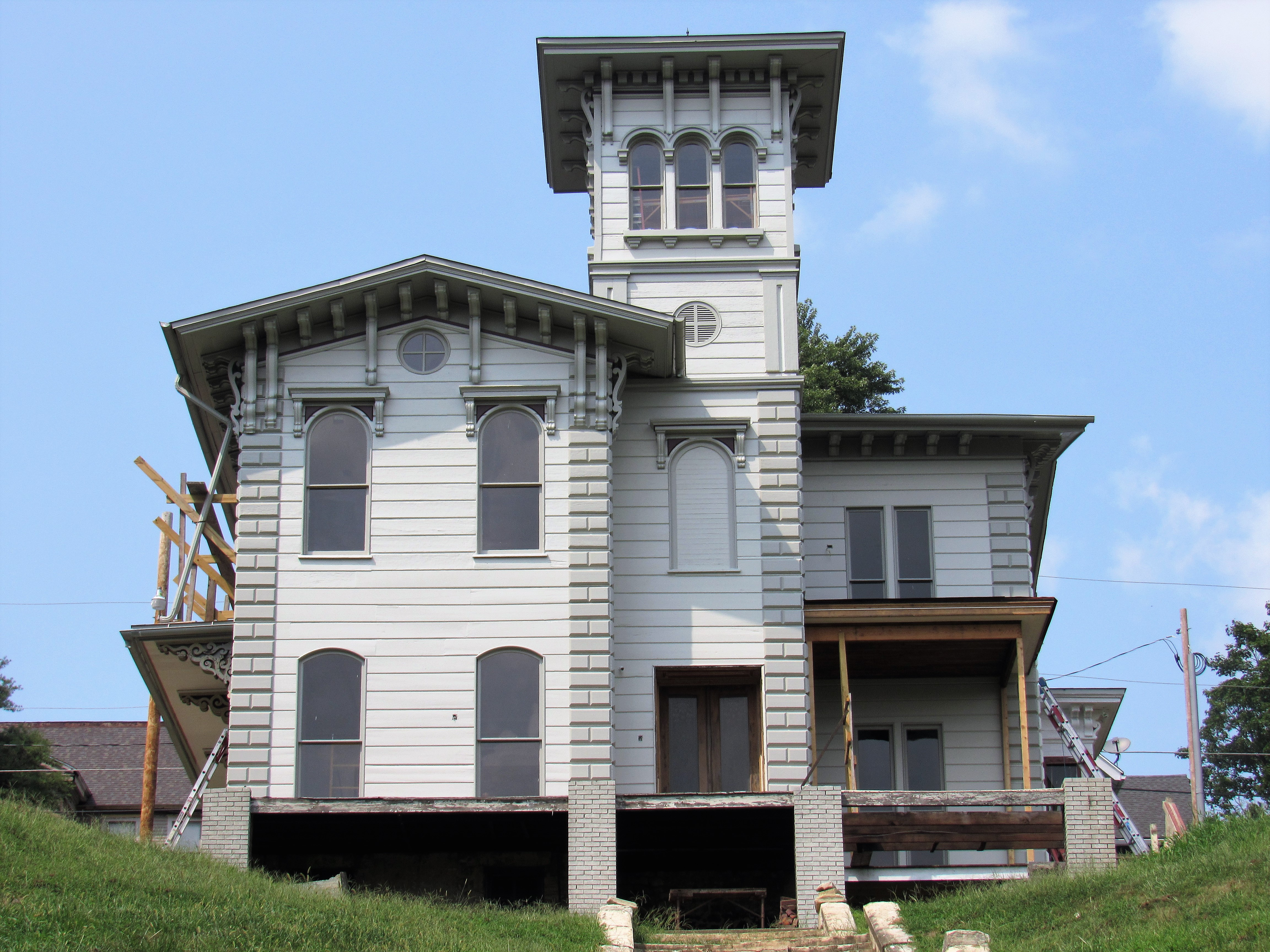 Lambrite-Iles-Petersen House in Davenport, Iowa being renovatied in 2018.